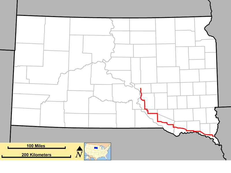 This is a map of South Dakota highlighting SD Highway 50. It replaces the old map of which the highlighting from the Clay/Union county border to the South Dakota/Iowa state border was nonexistent.